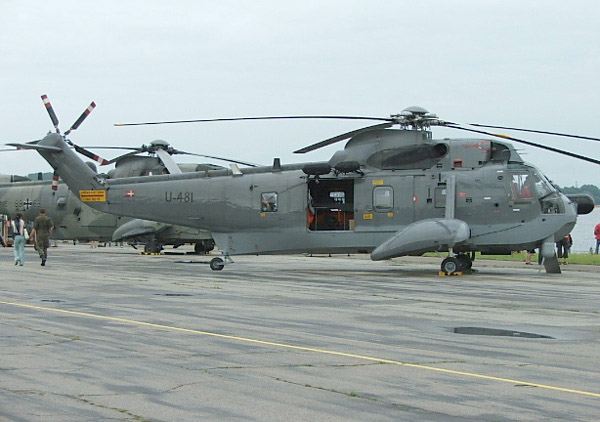 Royal Danish Air Force S-61A. Kiel Marien Air Force Base, Germany. 2005 /PAJ